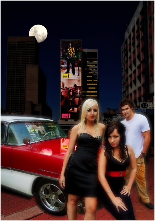 Contemporary local retro fashion of Johannesburg